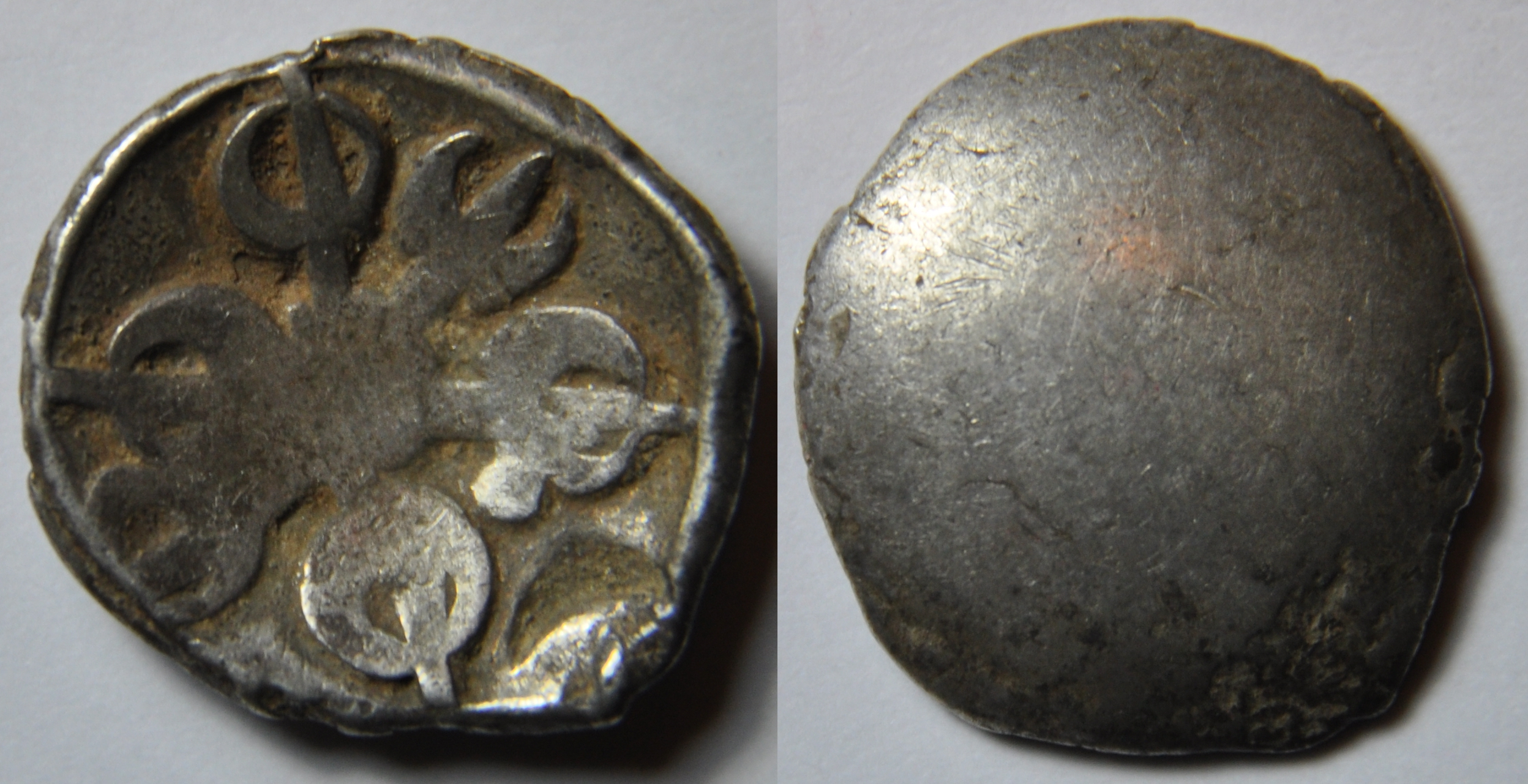 Une monnaie uniface en argent de la satrapie du Gandhara au Pakistan vers 500-400 BC. A/ Symbole du Gandhara représentant 6 armes avec une fois un point entre deux armes ; en bas du point, une lune en creux. R/ Vide Dimensions : 14 mm Poids : 1,4 g. Référence : Mitchiner ACW 4079, Rajgor 578 Cette satrapie faisait partie des sujets de l’empire perse au temps de Darius I vers la fin du Vie siècle avant J.C. Elle est un des 16 « Janapadas » mentionnées dans les chroniques bouddhistes. Coins of rulers of India A monetary silver coin of the satrapy of Gandhara in Pakistan about 500-400 BC. A / Gandhara symbol representing 6 weapons with one point between two weapons; At the bottom of the point, a hollow moon. R / Empty Dimensions: 14 mm Weight: 1.4 g. Agency's reference: Mitchiner ACW 4079, Rajgor 578 This satrapy was one of the subjects of the Persian Empire at the time of Darius I towards the end of the sixth century BC It is one of the 16 "Janapadas" mentioned in the Buddhist chronicles.